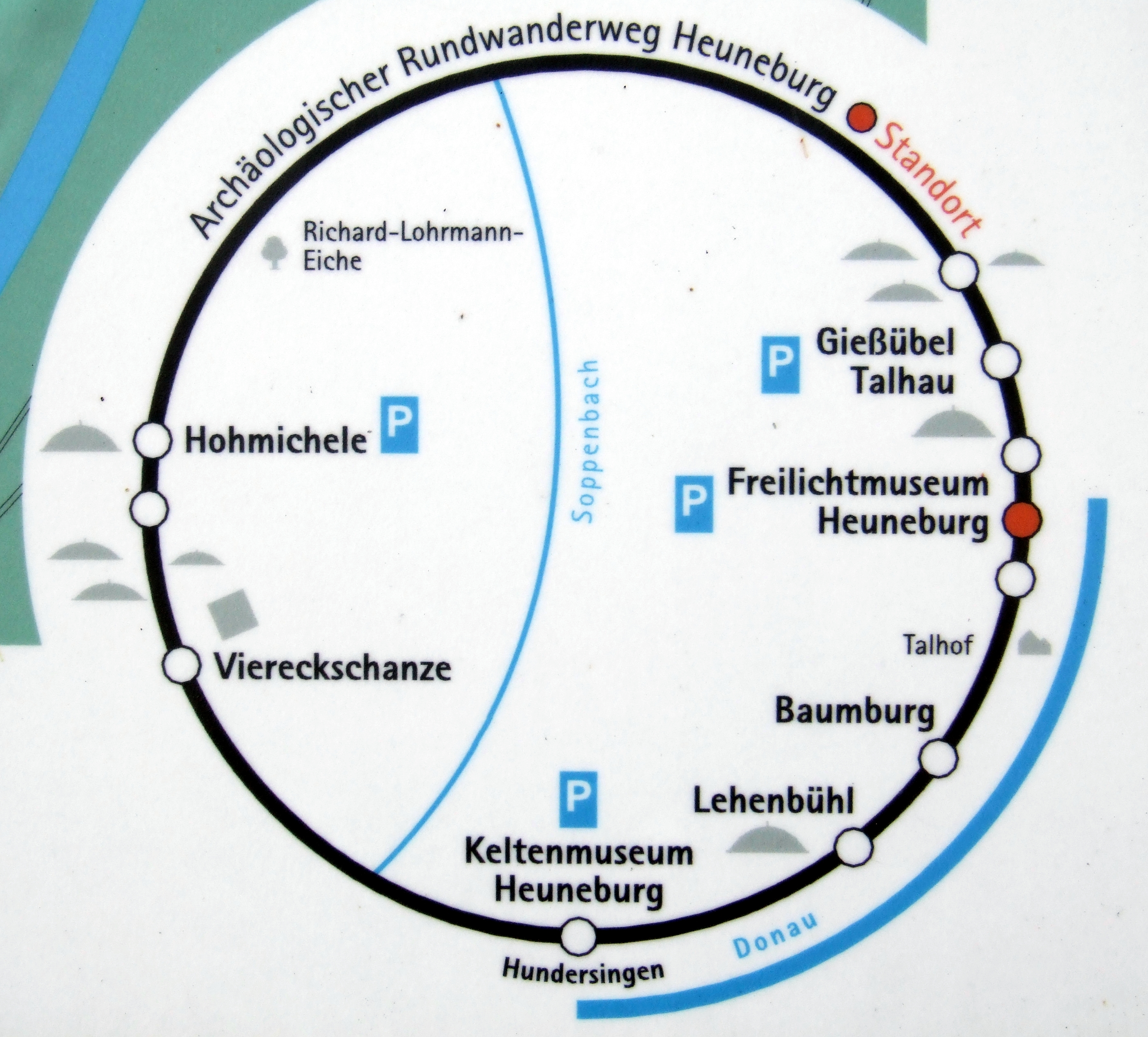 Heuneburg: circular archaeological hiking trail (layout)